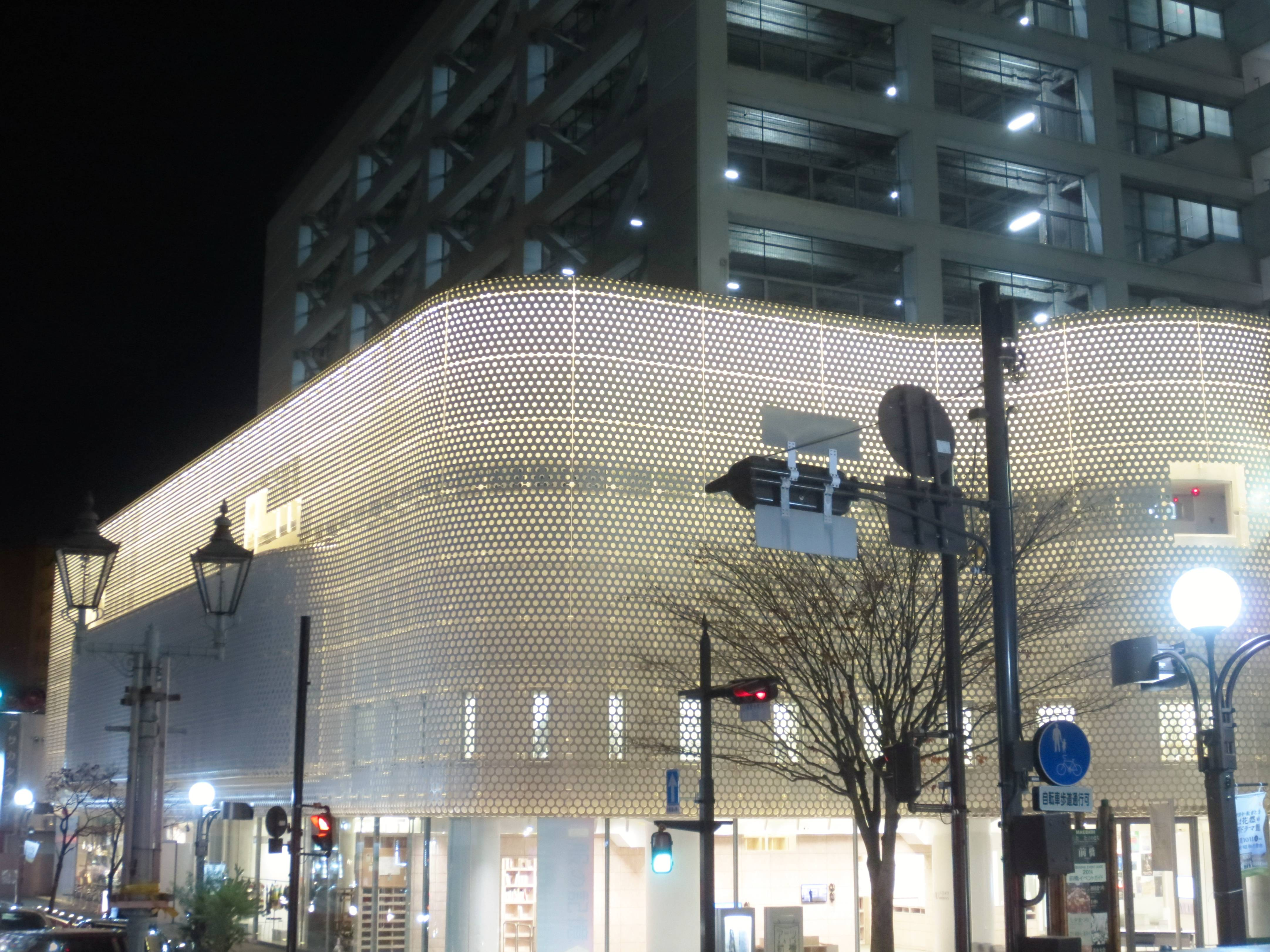 Arts Maebashi.